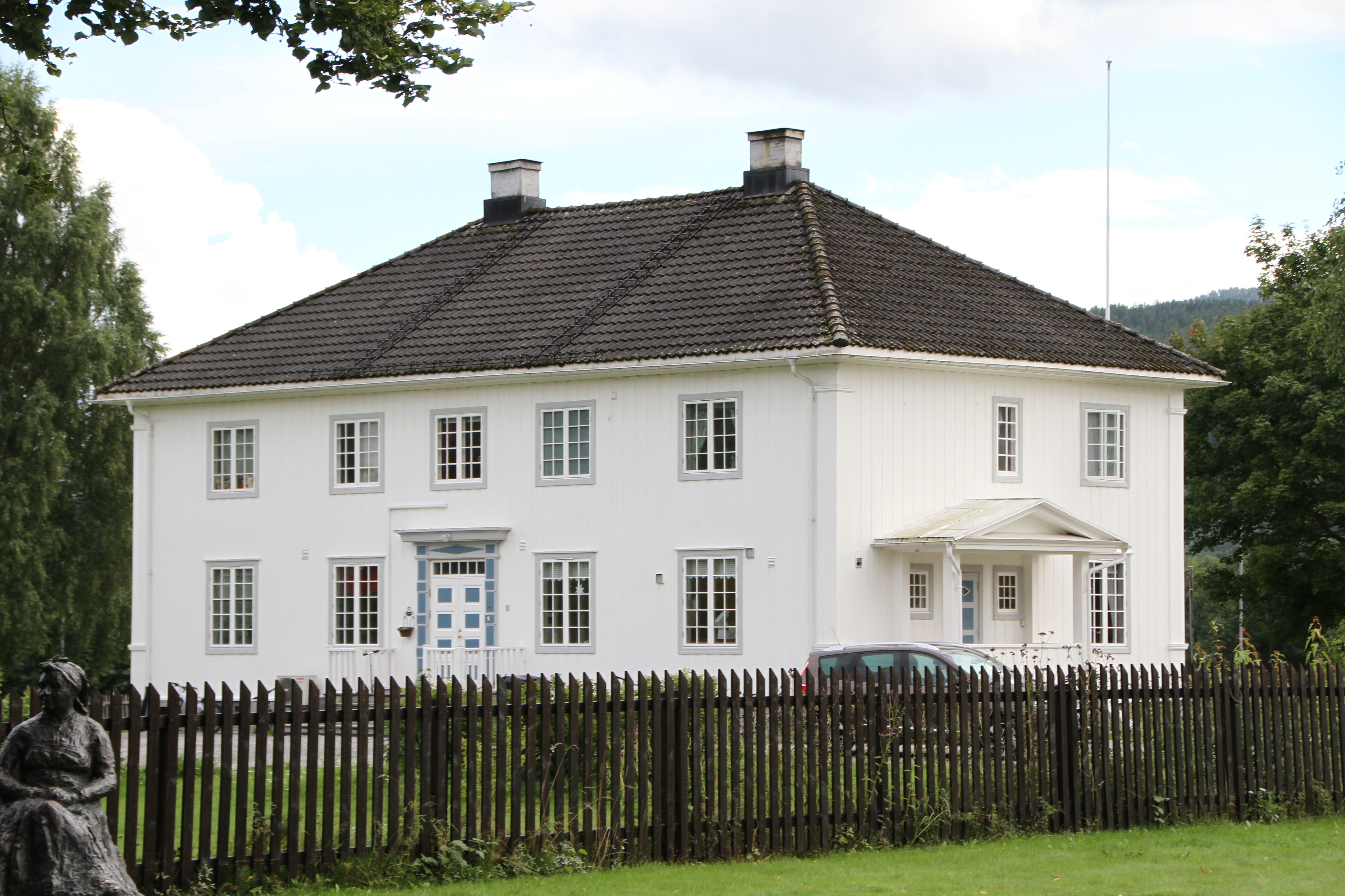 Heddal Parish Manor (Heddal prestegård) is the parish manor of Heddal Stave Church, Telemark (Norway)